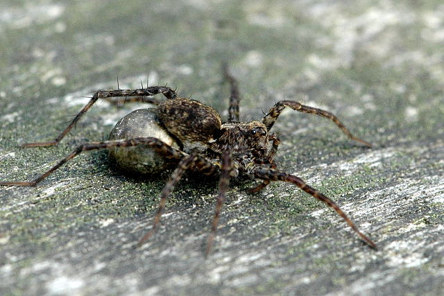 Pardosa hortensis from Commanster, Belgian High Ardennes .